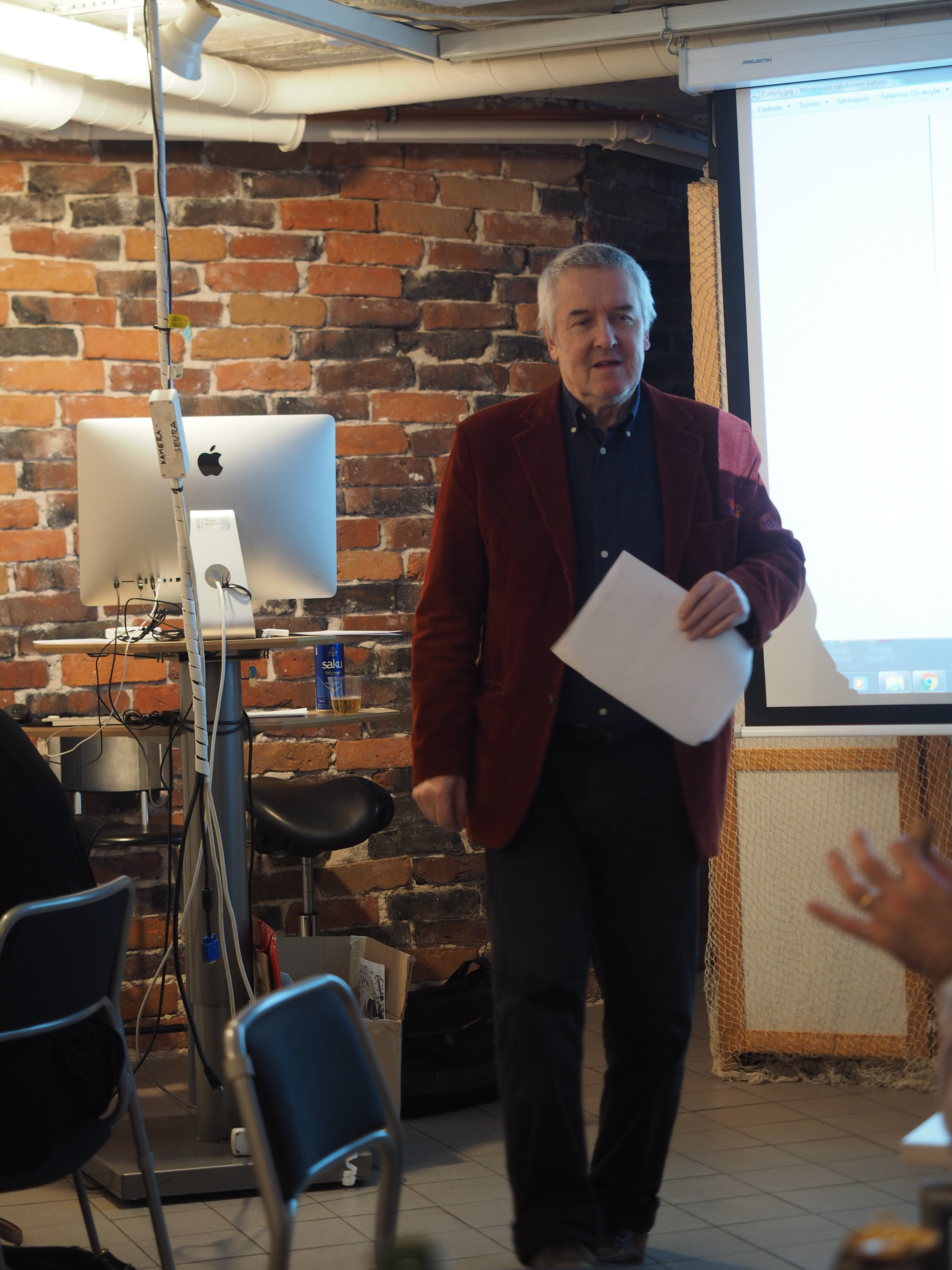 Photographer Jussi Aalto, chairman of the Kameraseura photography association, speaking at the Kameraseura Christmas party 2019 in Kamppi, Helsinki, Finland.